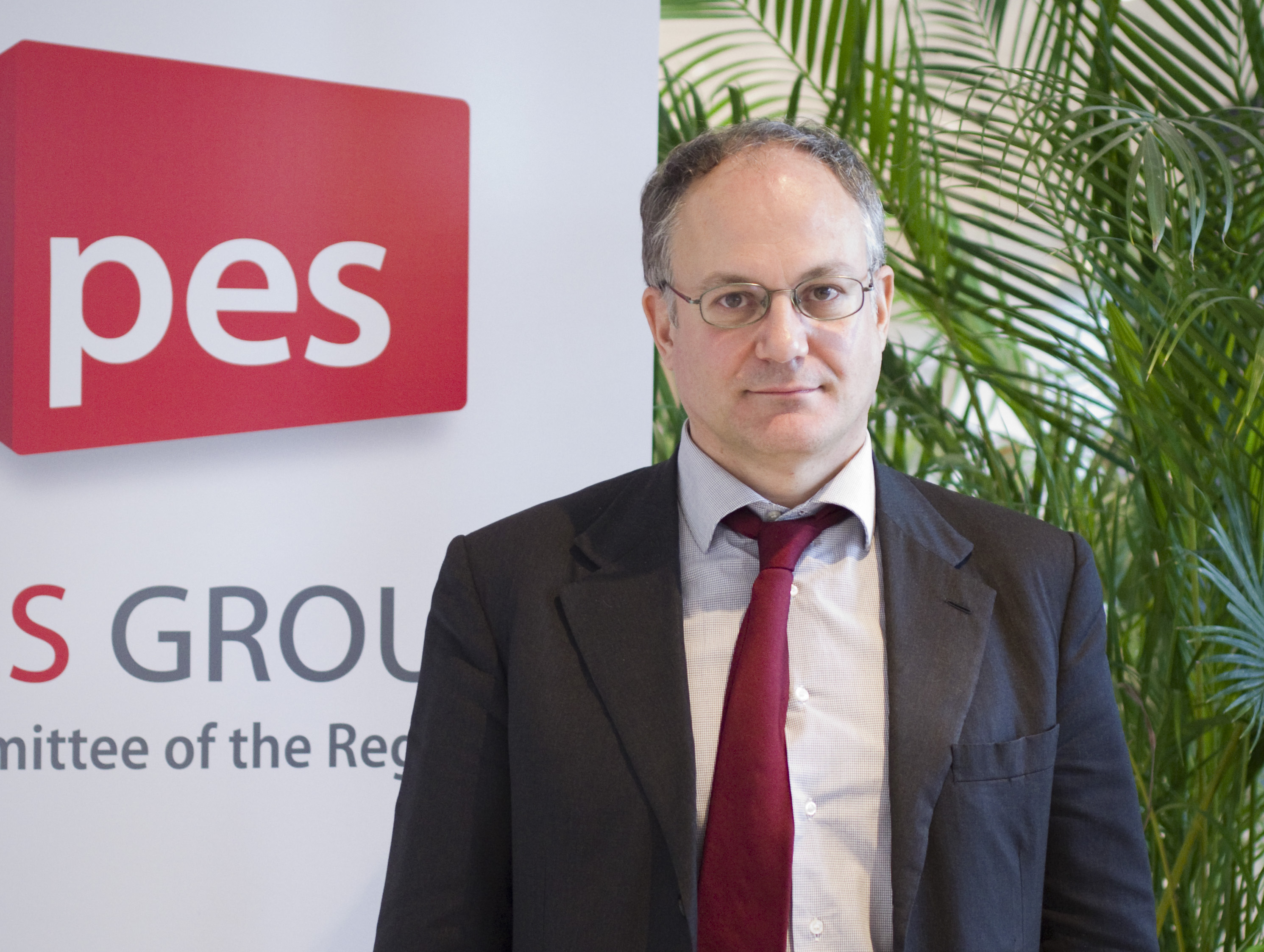 Roberto Gualtieri in 2012